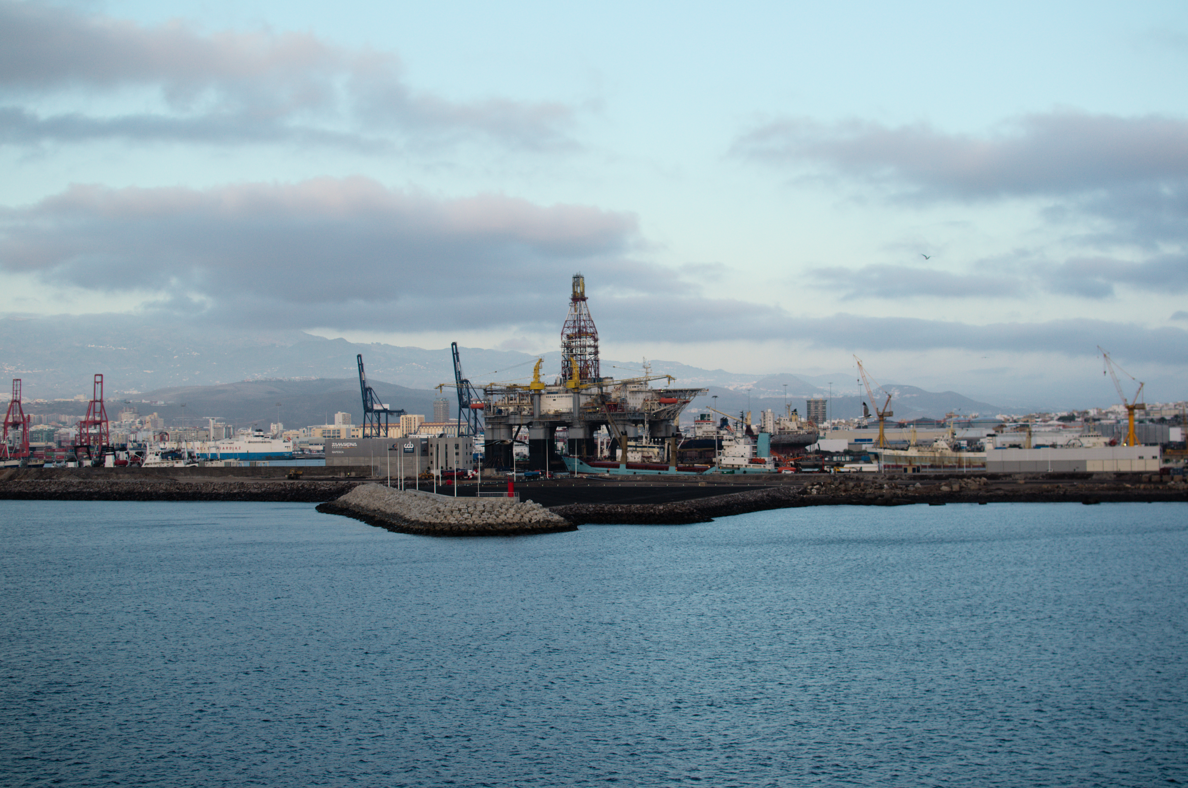 Vista del Puerto de Las Palmas desde el muelle de La Esfinge.